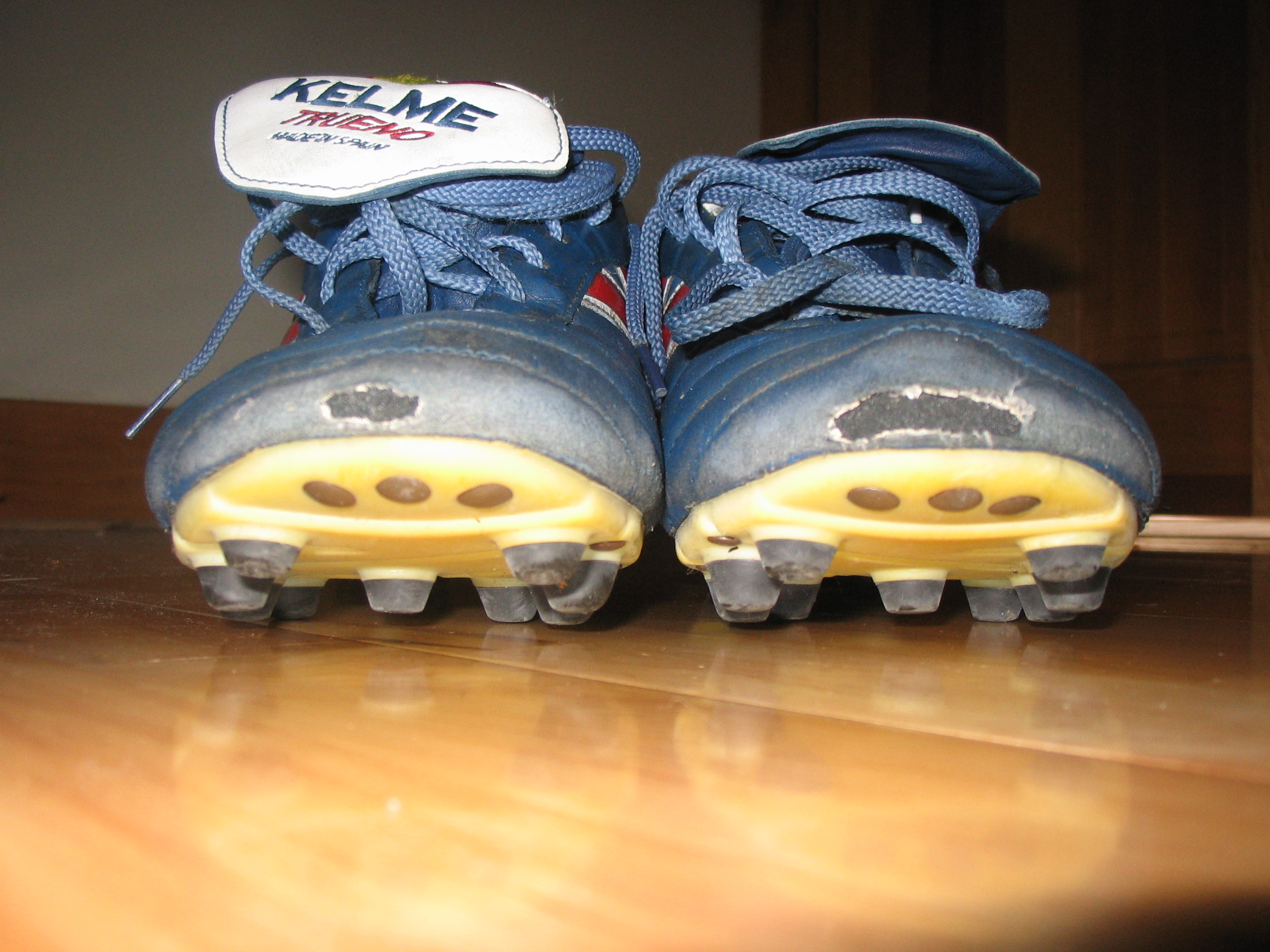 Popped holes in the toes of each boot last match, dammit. I'm going to try and fix them myself, lets see how that goes.